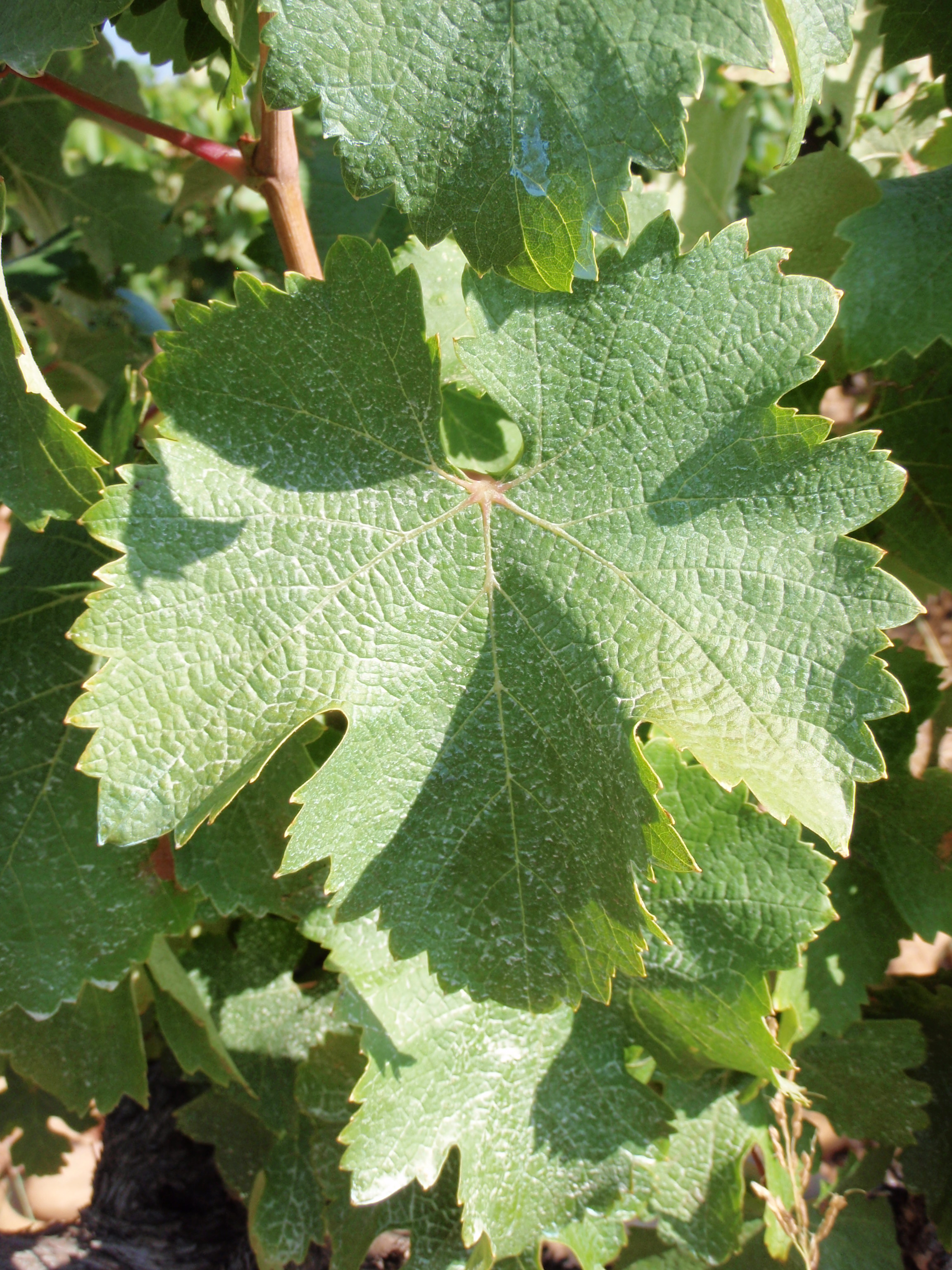 Counoise grape leaf